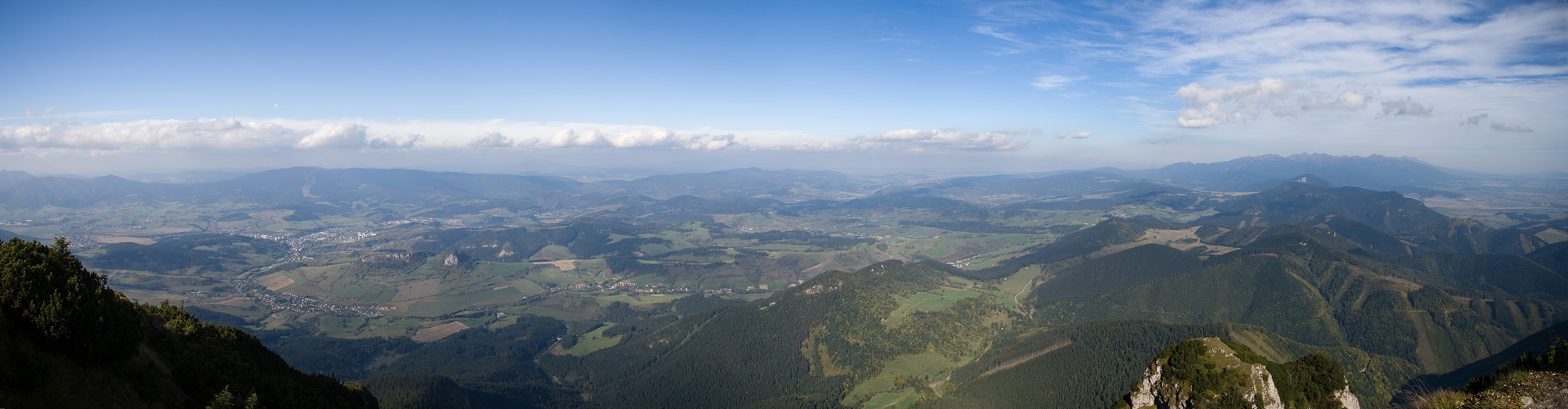 Wide view from Velky Choc Slovakia - NW - N - NE